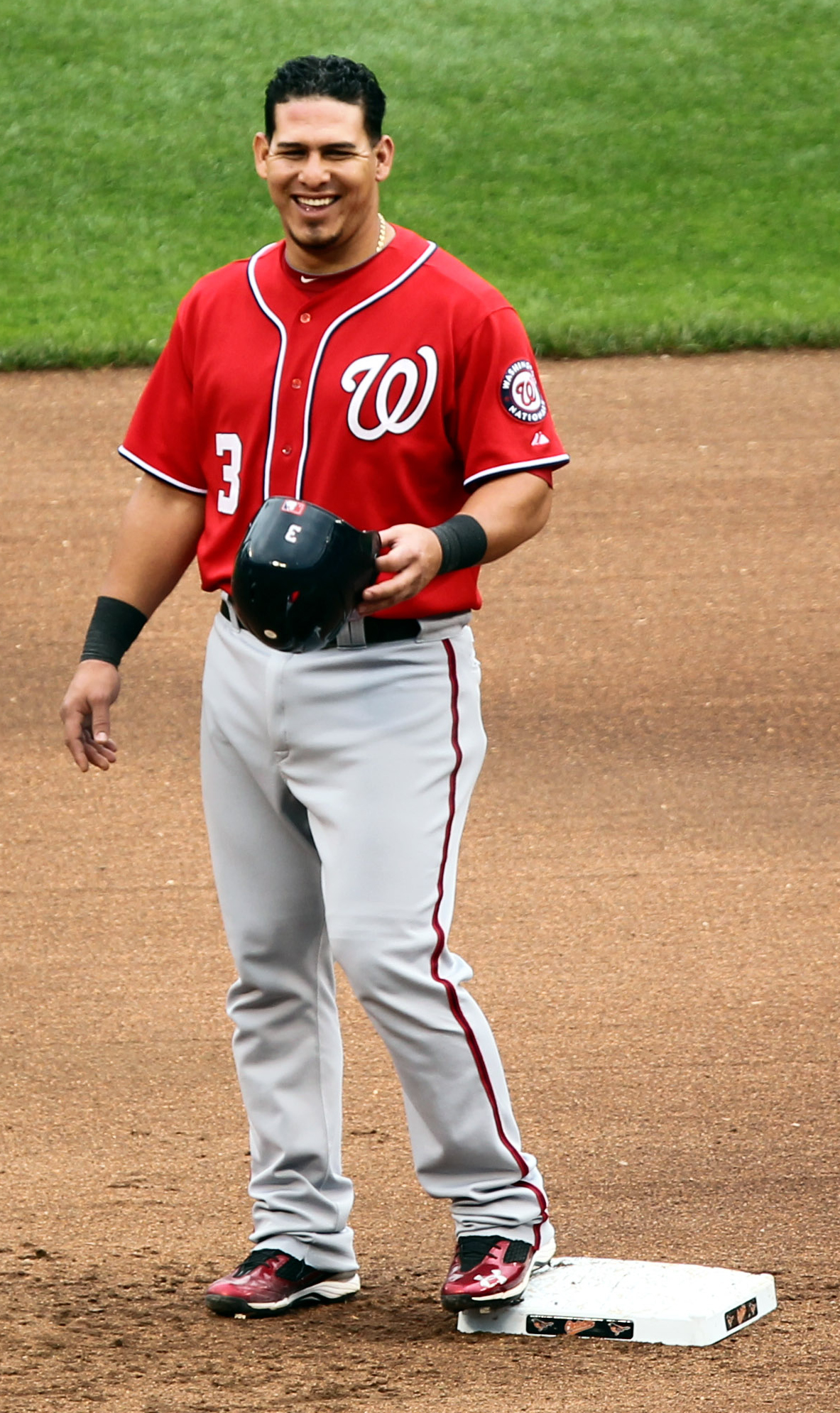 Wilson Ramos